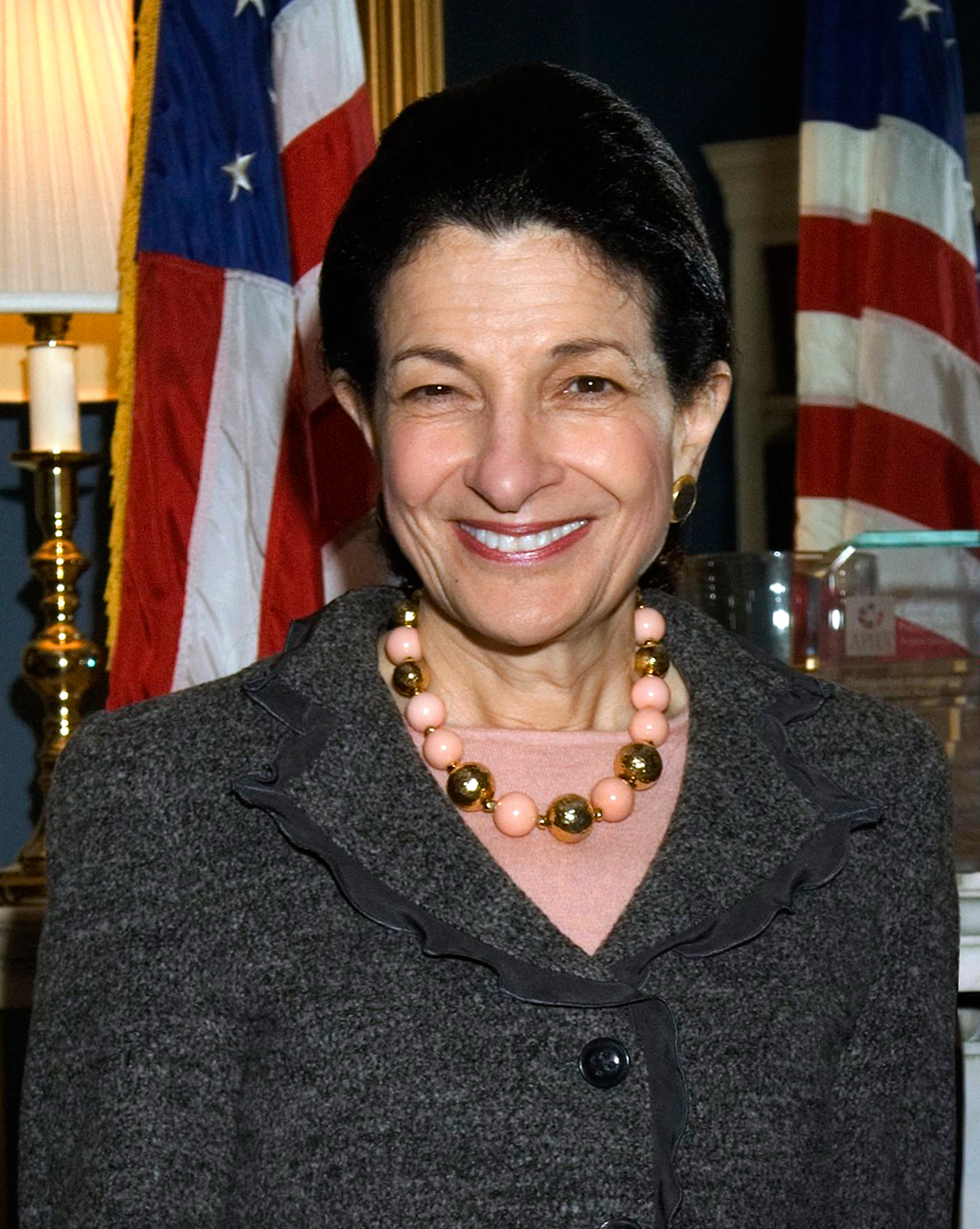 Official photo of Senator Olympia Snowe (R-ME).